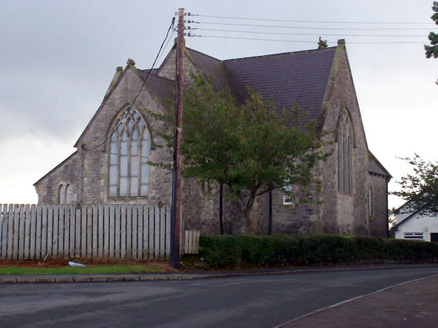 Moss Road, Annaghmore and Annaghmore Parish Church.